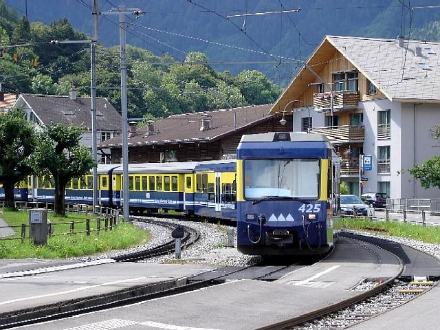 Jungfraubahnen, Wilderswil station